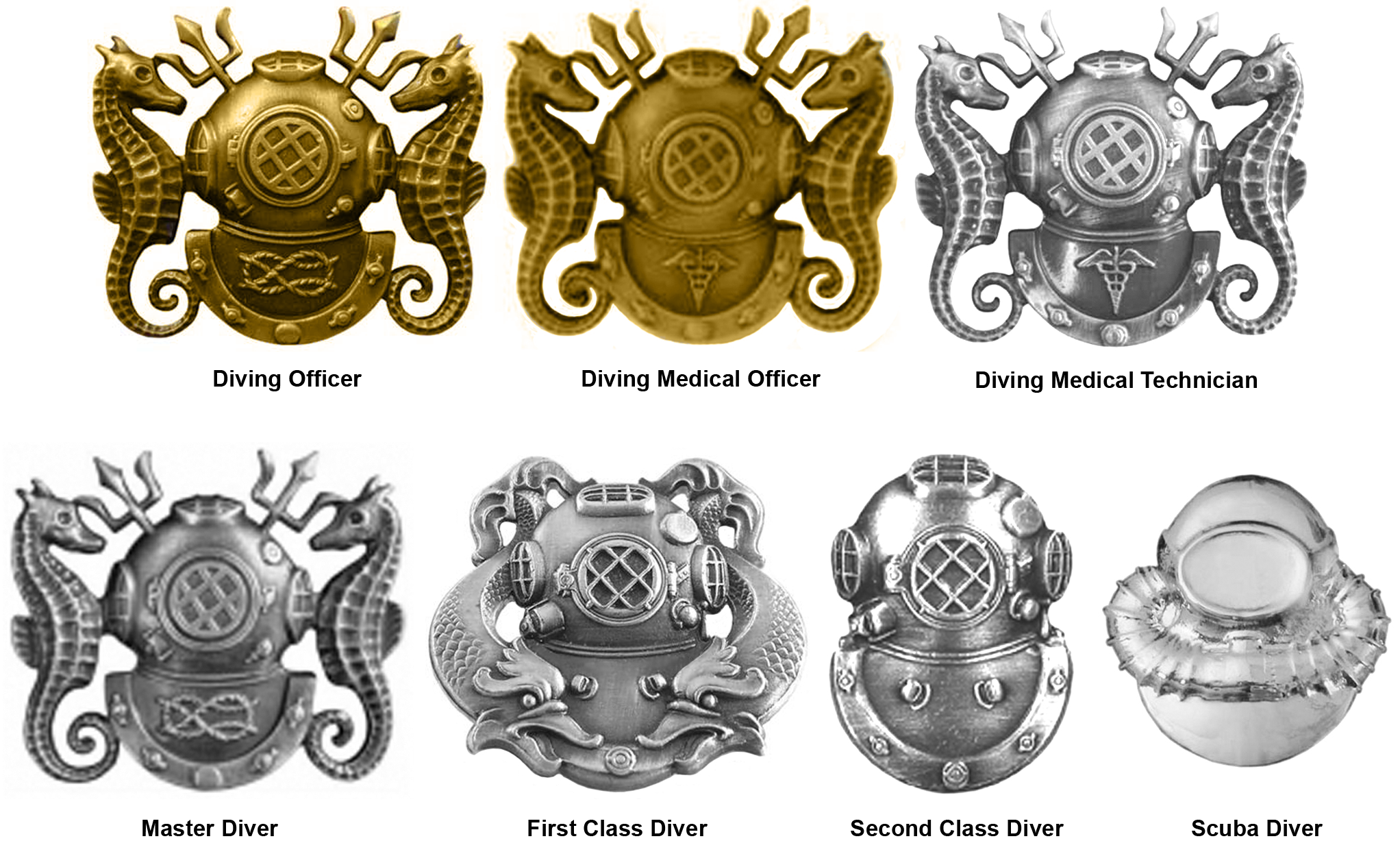 Image of Diving insignia used in the US Navy. For use in USN articles concerning awards.